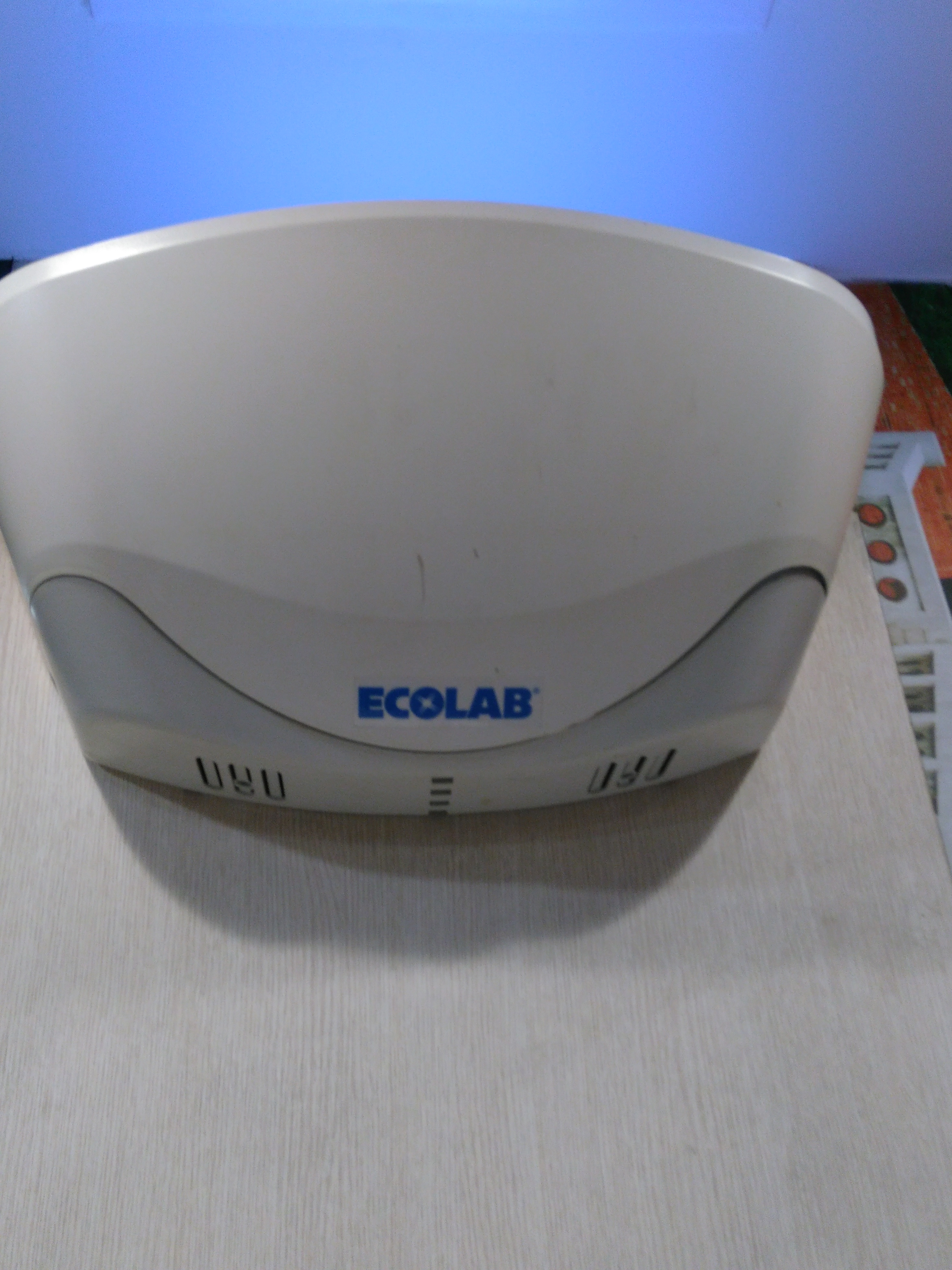 Ecolab product in Taiwan KFC.